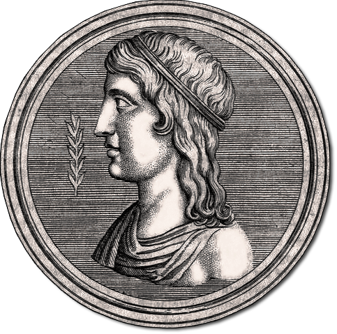 Portrait of ancient writer Apuleius; croped, cleaned, border, shadow and mirrored